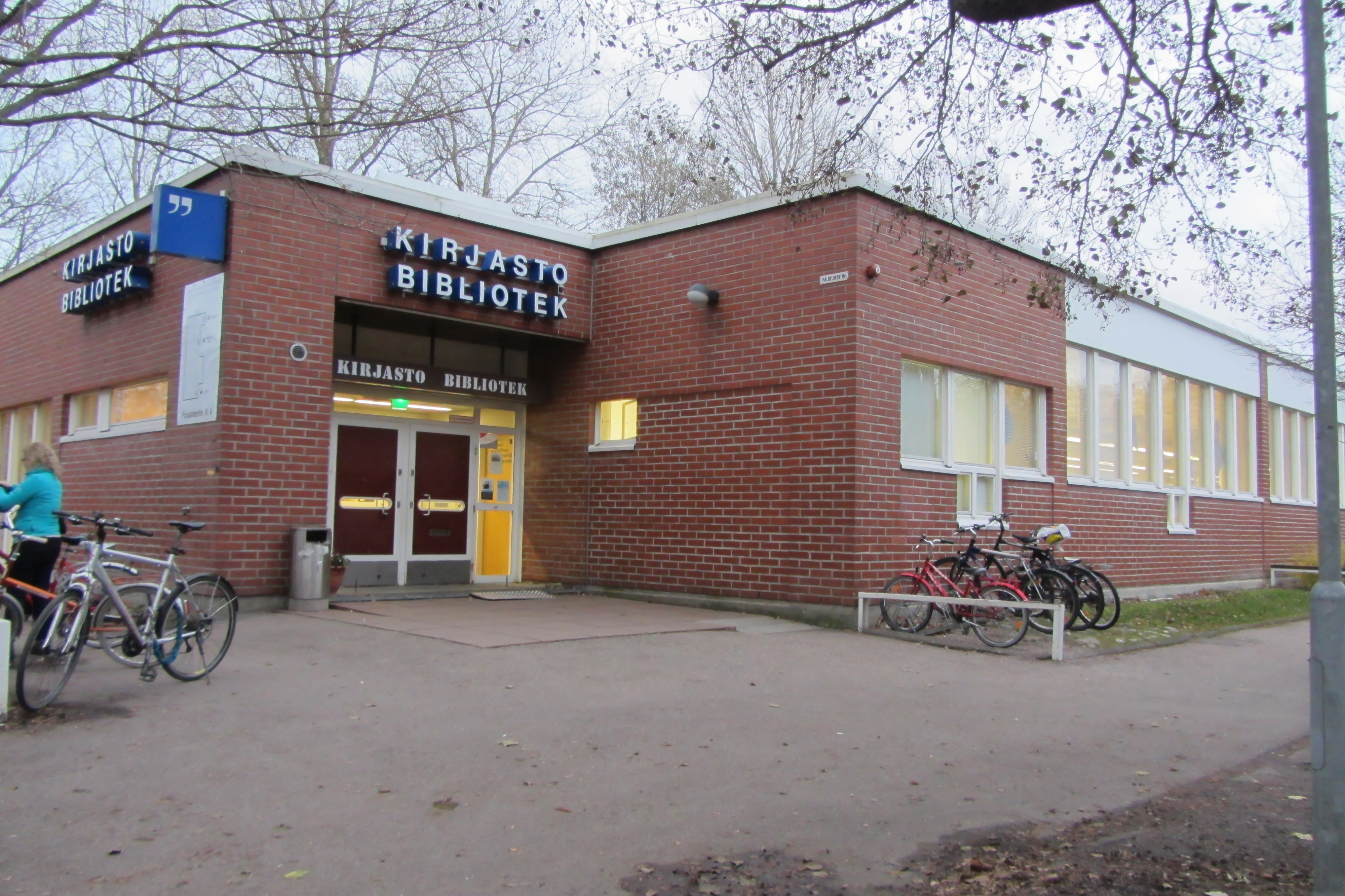 Lauttasaari Library